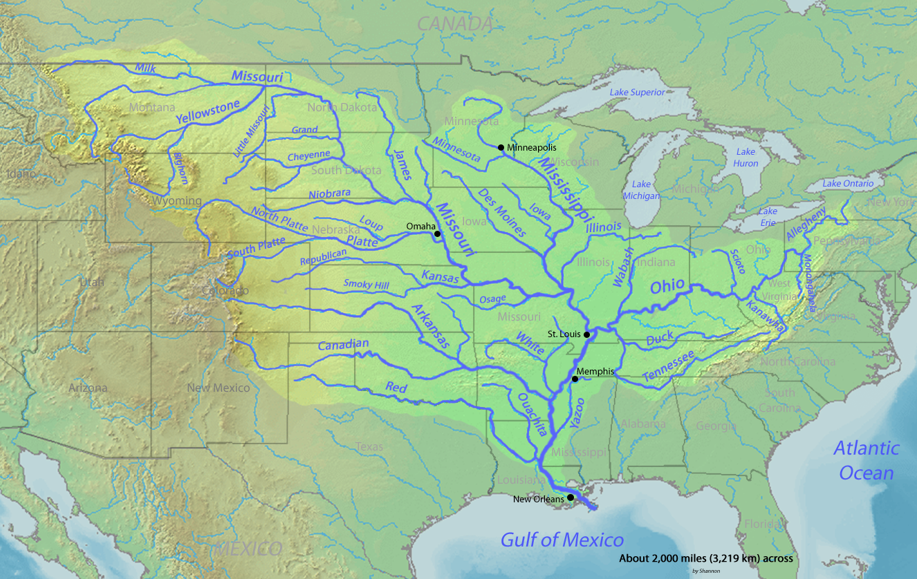 Yes, I took this too far.